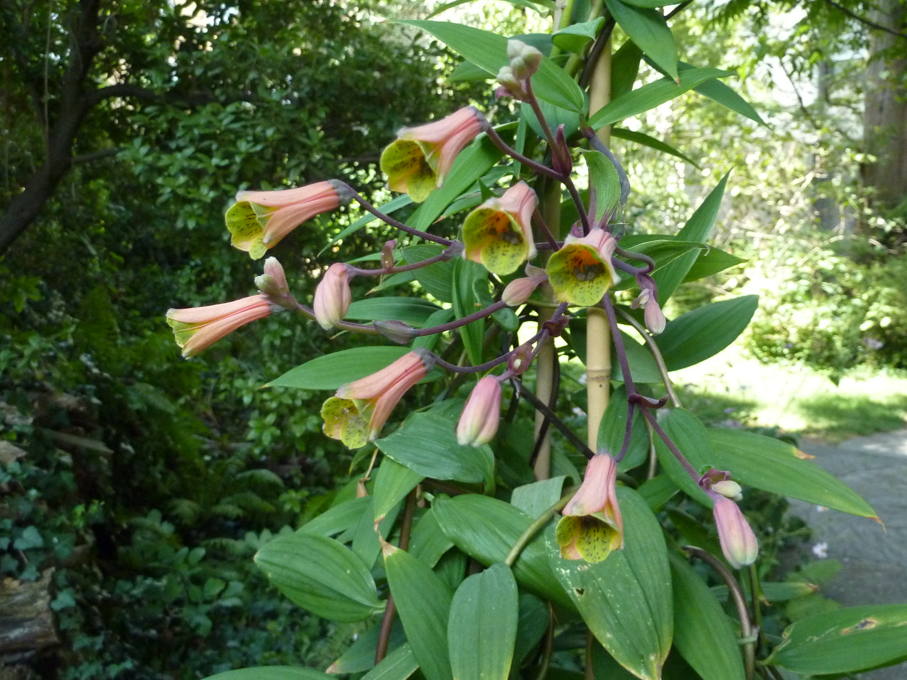 Bomarea edulis at the Botanical Garden of the University of Basel.